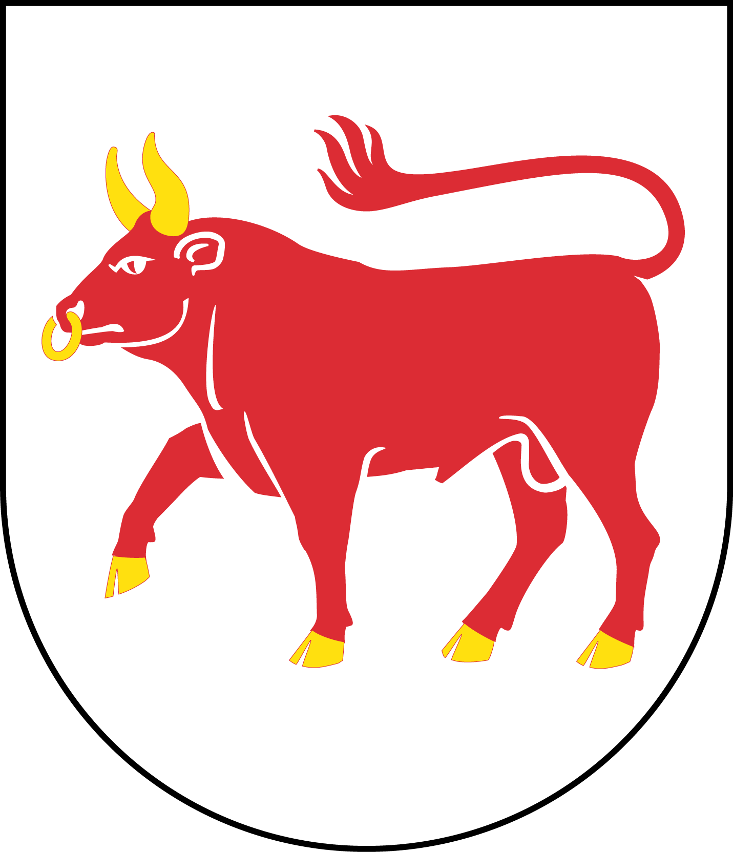 Coat of arms of the province of Dalsland, Sweden. Painted by Vladimir A. Sagerlund when he was the heraldic artist at the National Archives of Sweden (Riksarkivet). This representation of a coat of arms is potentially different from the one used by the armiger (municipality or organisation) in question. = ⇑“Sable, a lionrampant or” This coat of arms was drawn based on its blazon which – being a written description – is free from copyright. Any illustration conforming with the blazon of the arms is considered to be heraldically correct. Thus several different artistic interpretations of the same coat of arms can exist. The design officially used by the armiger is likely protected by copyright, in which case it cannot be used here.Individual representations of a coat of arms, drawn from a blazon, may have a copyright belonging to the artist, but are not necessarily derivative works. Further information: Commons:Coats of arms and Template:Coa blazon